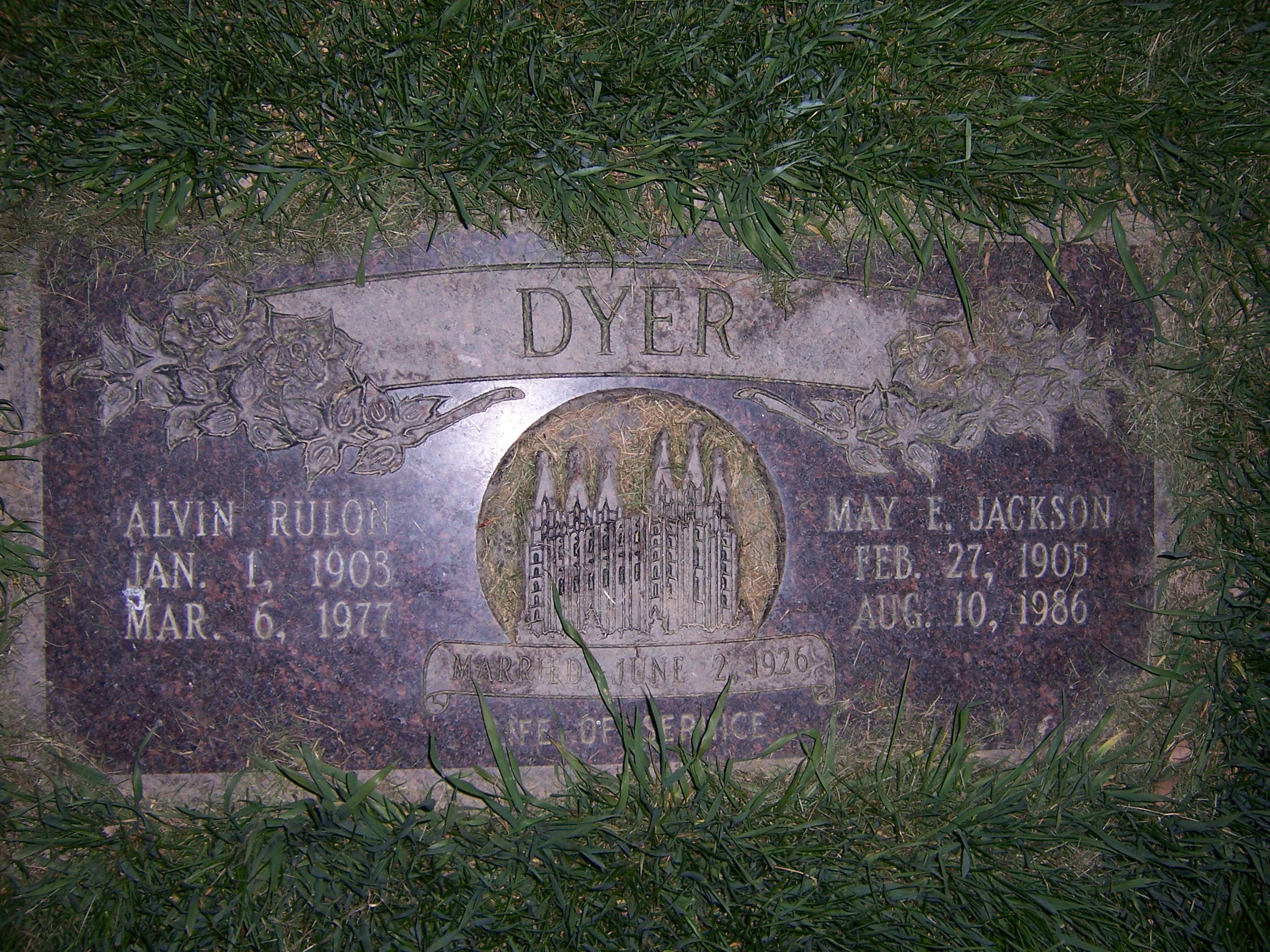 Grave marker of Alvin R. Dyer, an Assistant to the Quorum of the Twelve Apostle (1958-1967 & 1970-1976) and counselor in the First Presidency (1967 -1970) of The Church of Jesus Christ of Latter-day Saints (LDS Church).